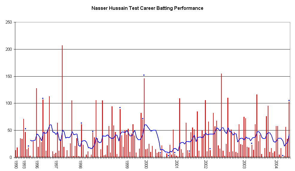 This graph details the Test Match performance of Nasser Hussain. It was created by Raven4x4x. The red bars indicate the player's test match innings, while the blue line shows the average of the ten most recent innings at that point. Note that this average cannot be calculated for the first nine innings. The blue dots indicate innings in which Hussain finished not-out. This graph was generated with Microsoft Excel 2002, using data from Cricinfo and .au.